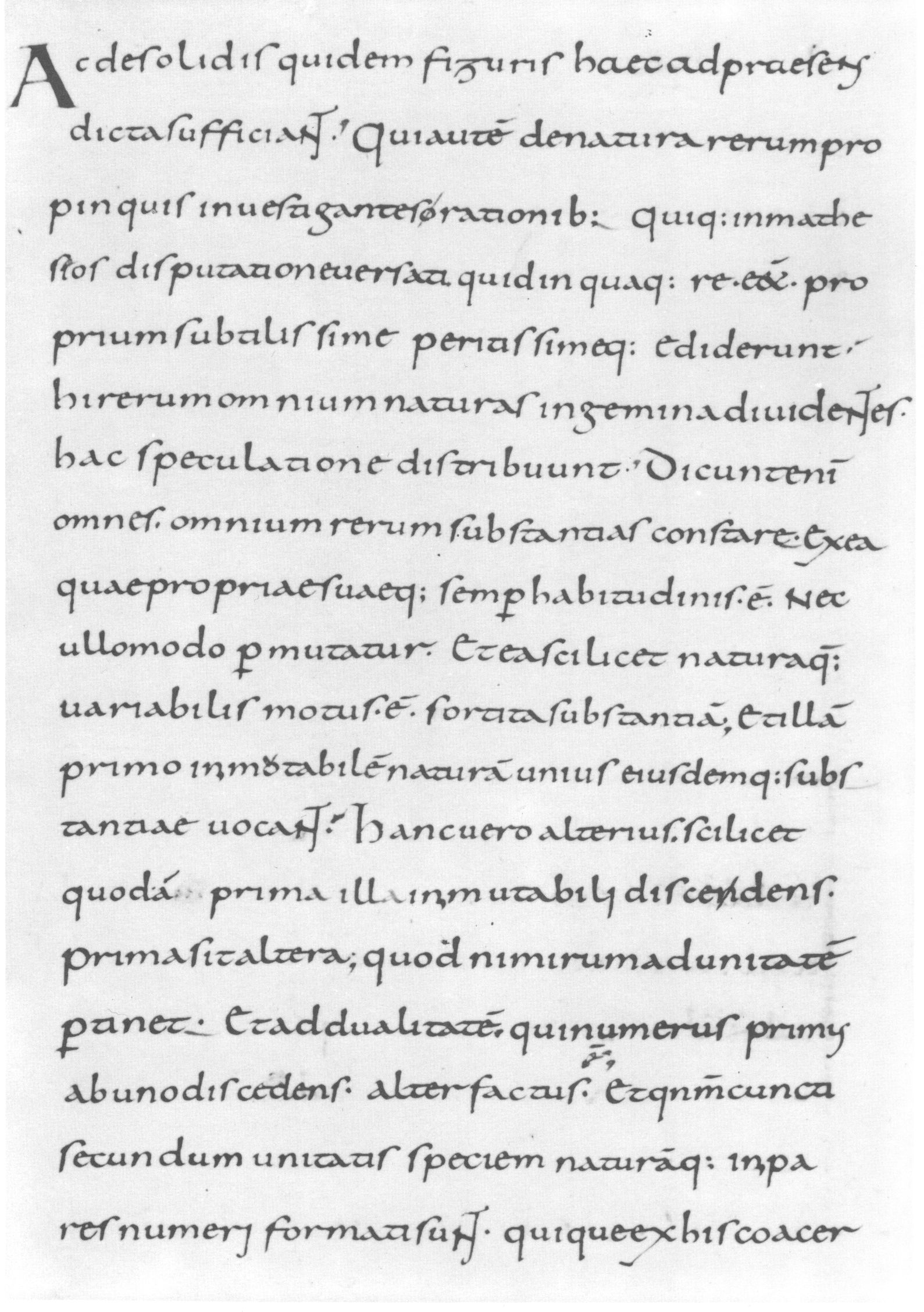 Boethius, De institutione arithmetica in a manuscript written for king Charles the Bald. Bamberg, Staatliche Bibliothek, Ms. Class. 5 (HJ. IV. 12), fol. 101r.